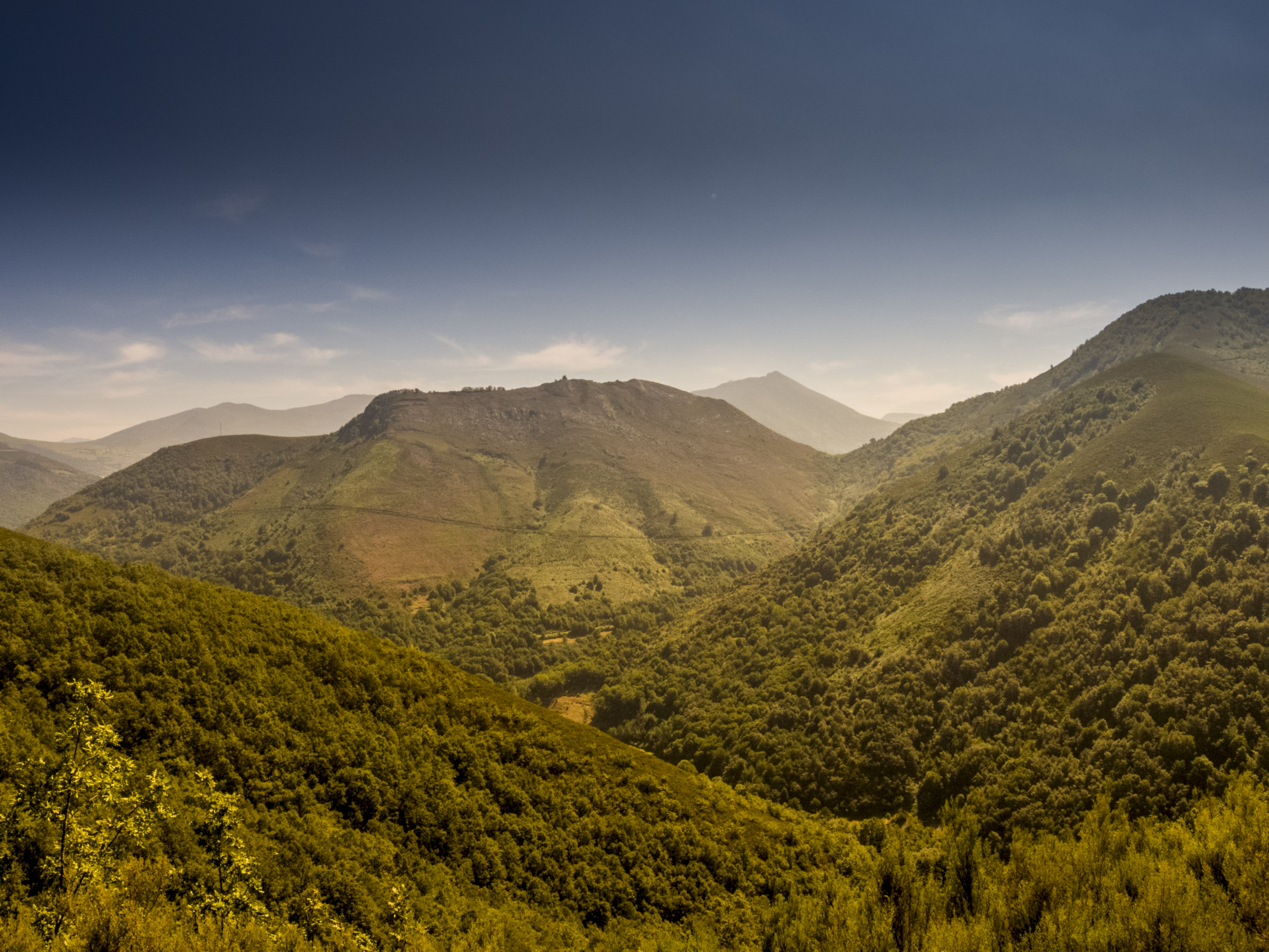 This is a photography of a Site of Community Importance in Spain with the ID: ES1200002. Natura2000 entry, EEA entry